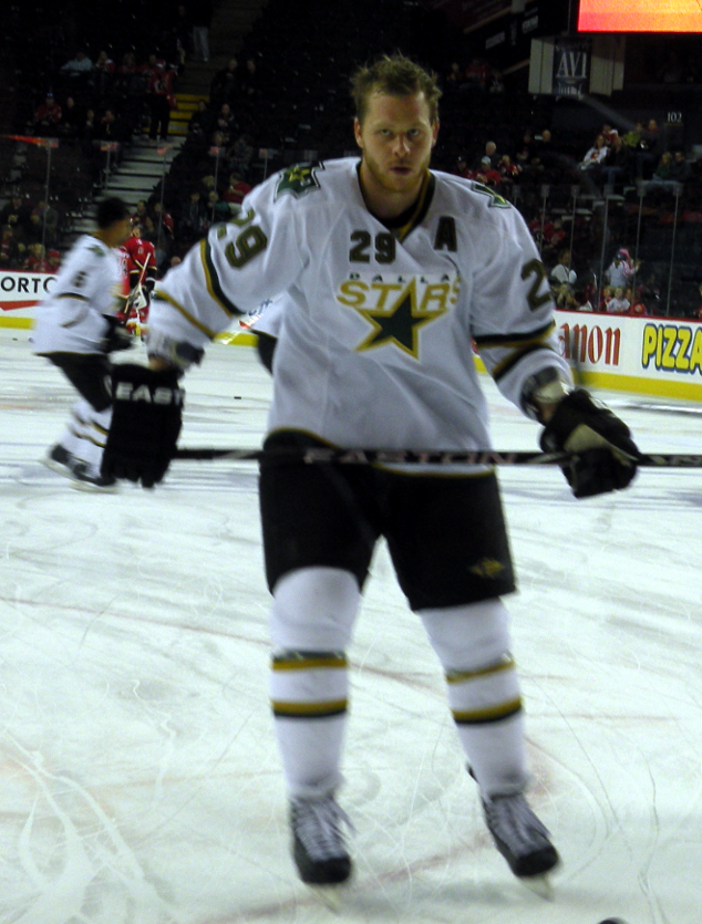 Dallas Stars forward Steve Ott prior to a National Hockey League game against the Calgary Flames, in Calgary.